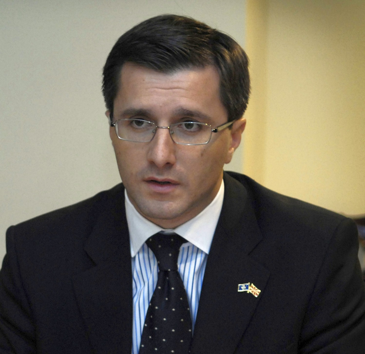 Minister of Defense of the Republic of Macedonia Lazar Elenovski meeting Secretary of Defense Robert M. Gates at the Pentagon Nov. 2, 2007.